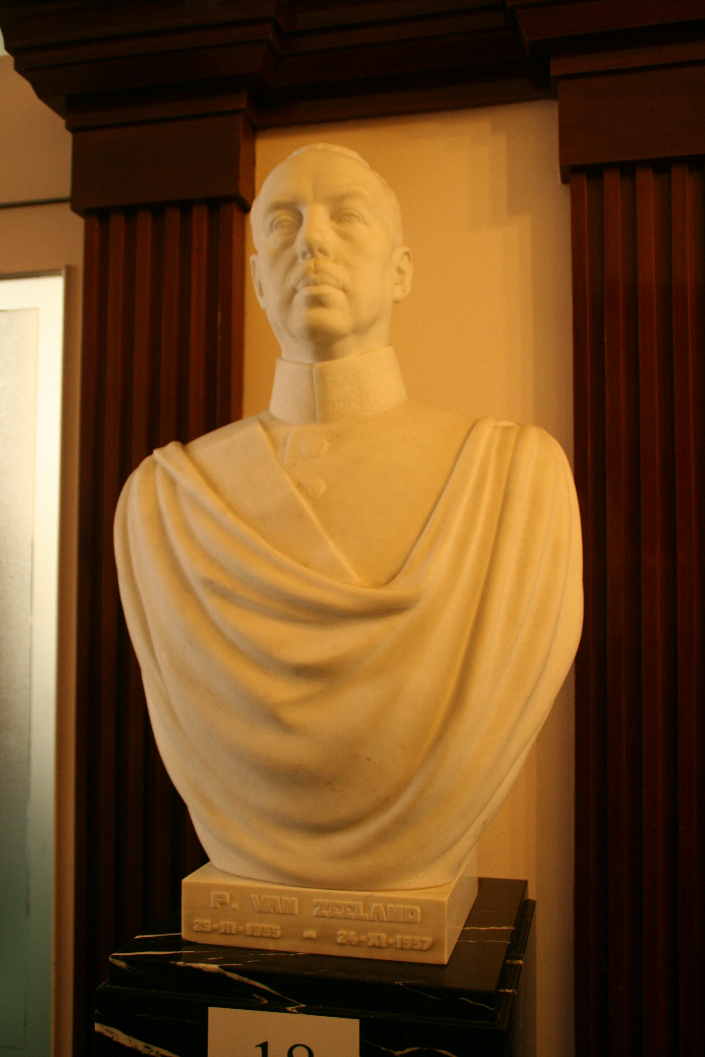 Bust of Paul van Zeeland in the Palais de la Nation in Brussels, Belgium.